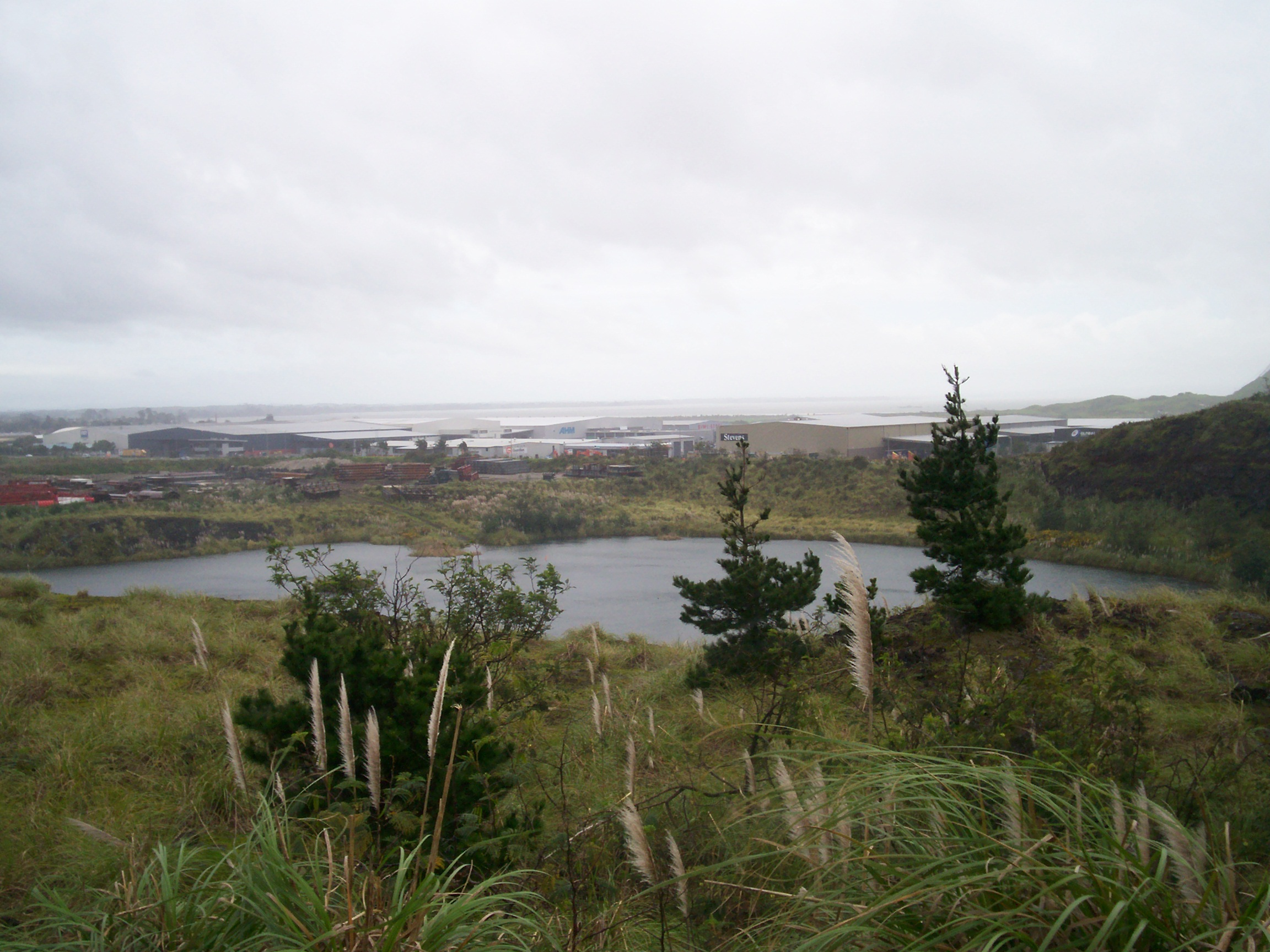 The quarried peak of Matukutūruru, now a 'lake'. Picture is taken from some of the higher remnants.